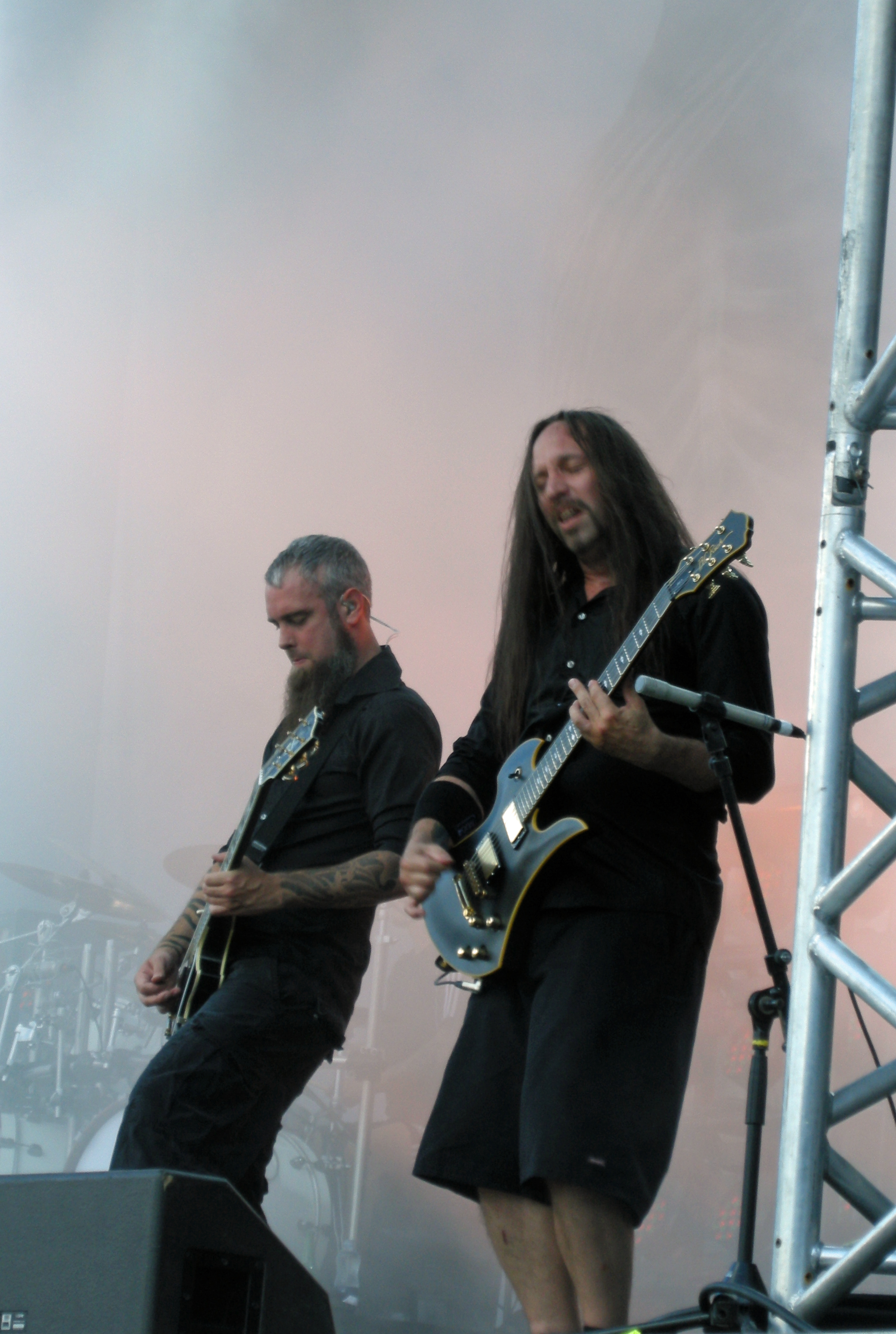 Björn Gelotte and Niclas Engelin with In Flames at Sonisphere Festival, Stockholm, Sweden 2011